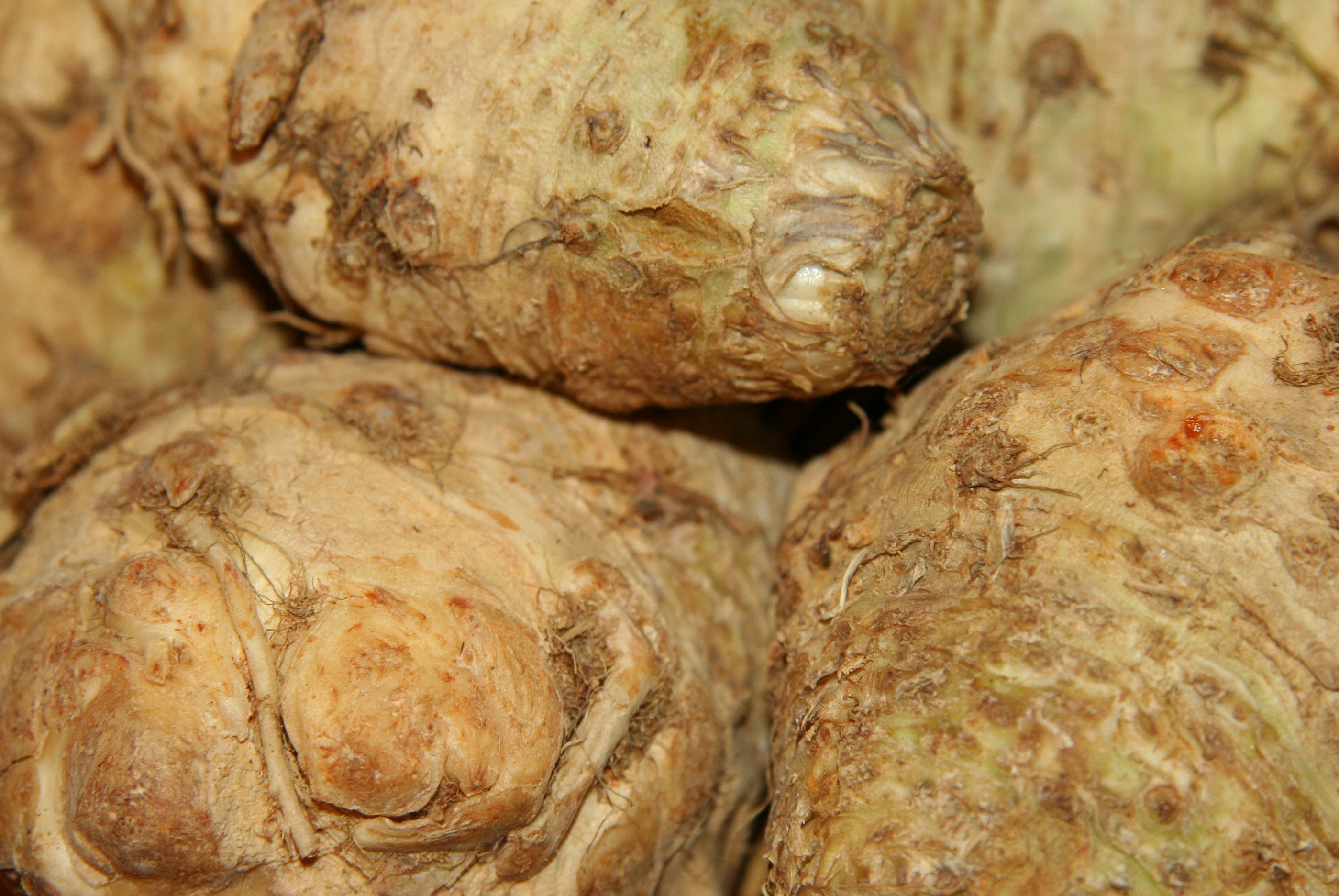 Celeriac roots offered for sale at a winter farmers' market in Rochester, Minnesota